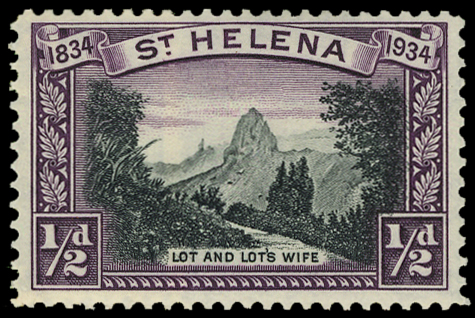 Stamp of St. Helena, 1934, 0,5d. Scott 101 Centenary Issue